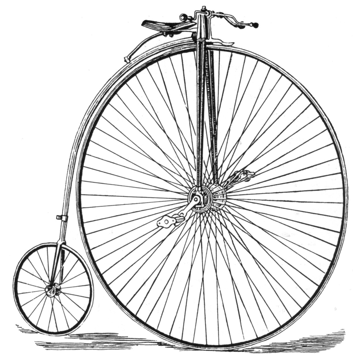 Penny-farthing